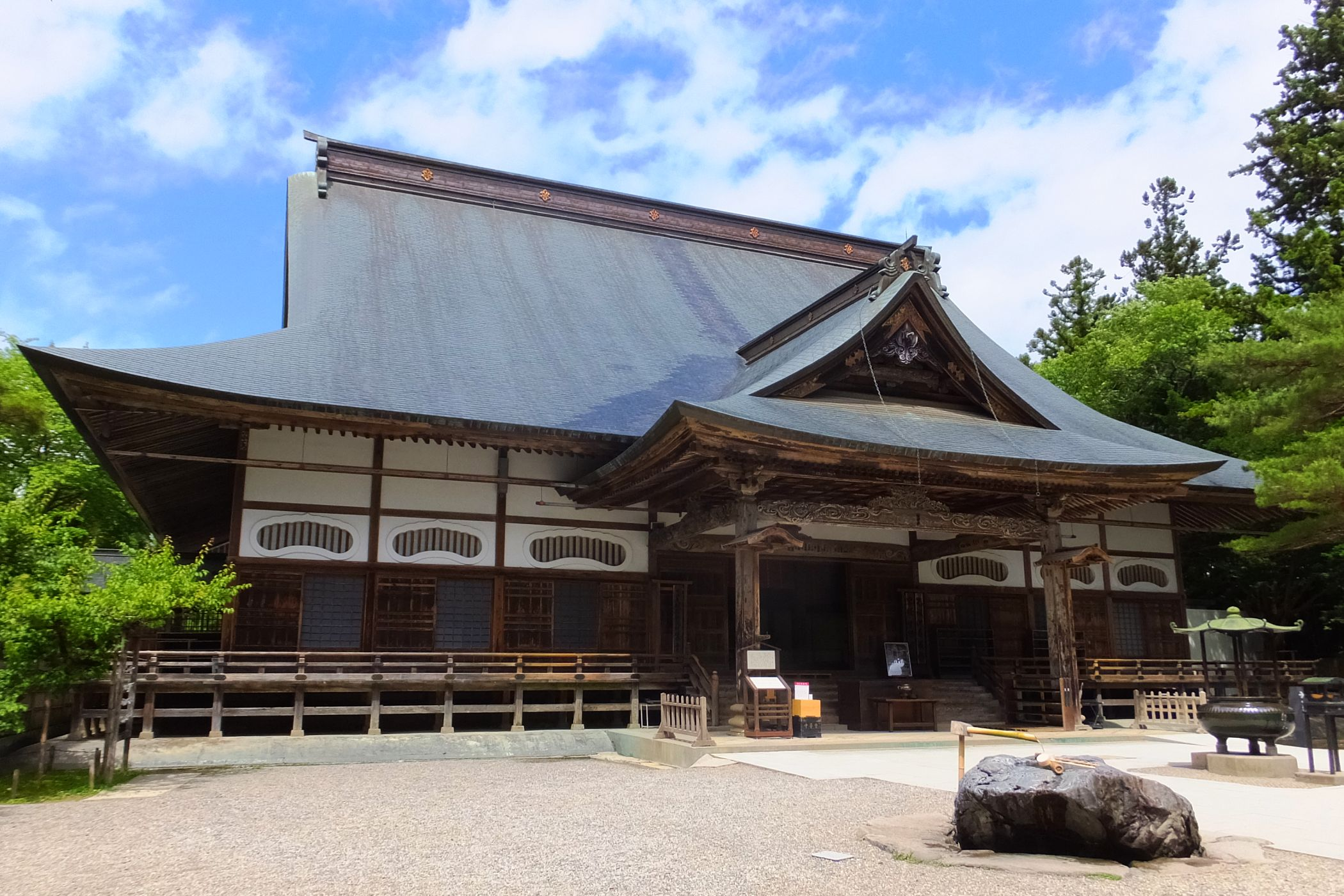 Main hall of Chūson-ji temple in Hiraizumi, Iwate Prefecture